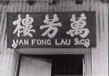 Blach and white photo taken in the early 1940s. Original held by the Northern Territory Library and Information Service. Photo number: PH0106/0023. Shop sign, Man Fong Lau & Co, Cavenagh Street, Darwin.